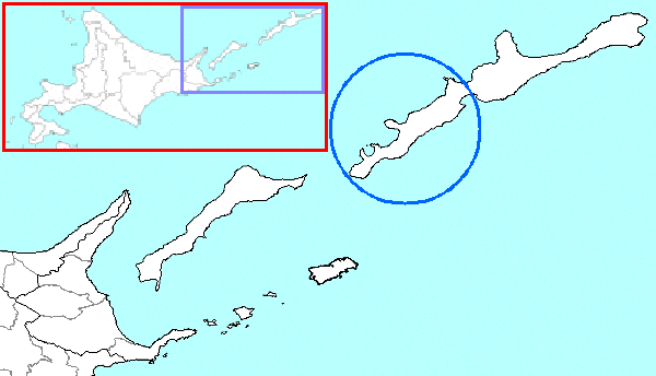 The location of Rubetsu in Nemuro Subprefecture, Hokkaido Prefecture, Japan.